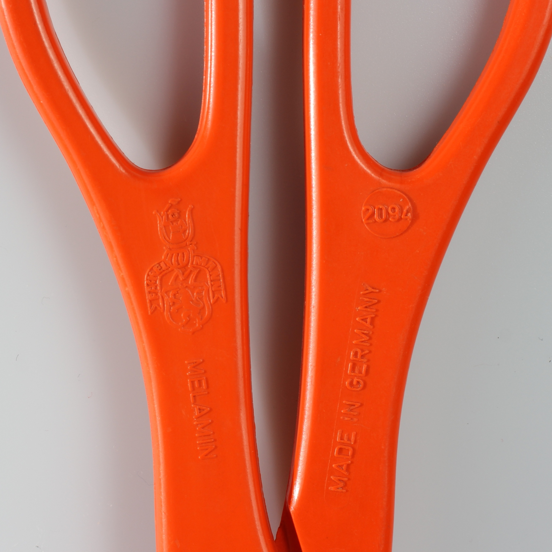 Plastic Kitchen tong made of Melamine resin (1960).